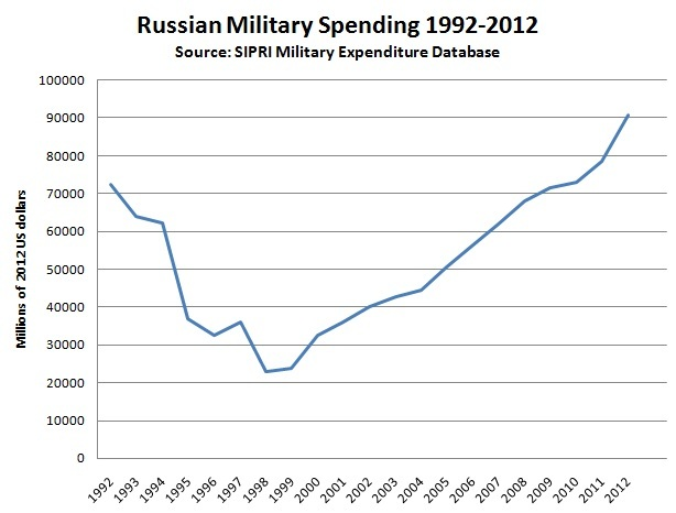 Graph showing change in yearly Russian military budget created from SIPRI military expenditure database. User FOARP's own work.